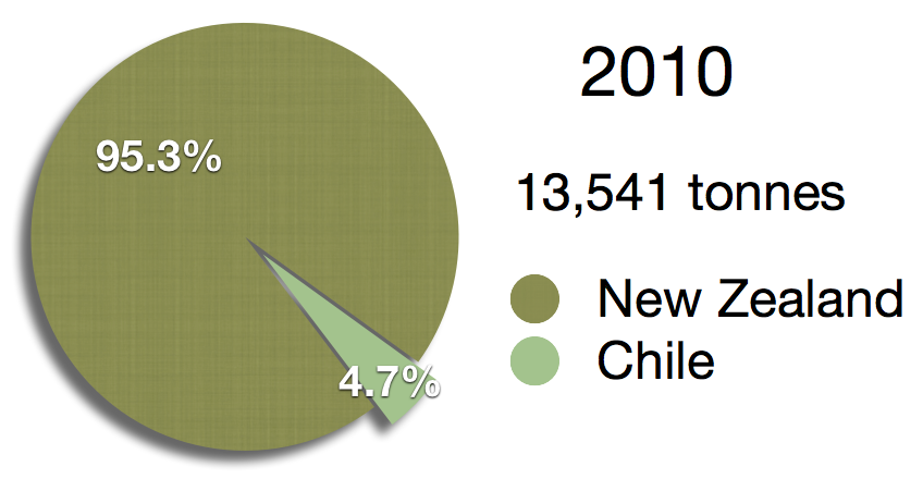 Aquacultural production of Chinook salmon, Oncorhynchus tshawytscha, by country in thousand tonnes in 2010, as reported by the FAO. Based on data sourced from the FishStat database